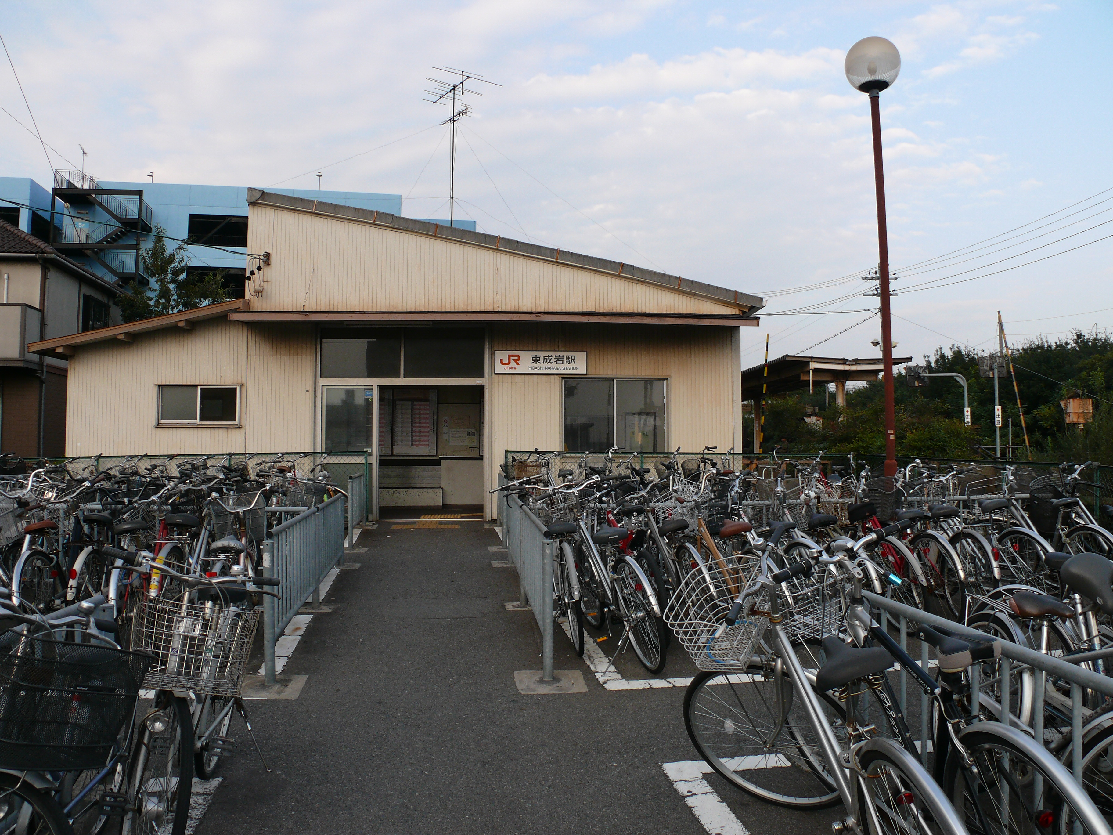 JR Central of Taketoyo Line in Higashi-Narawa Station.